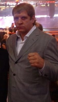 Aleksander Emelianenko, MMA fighter